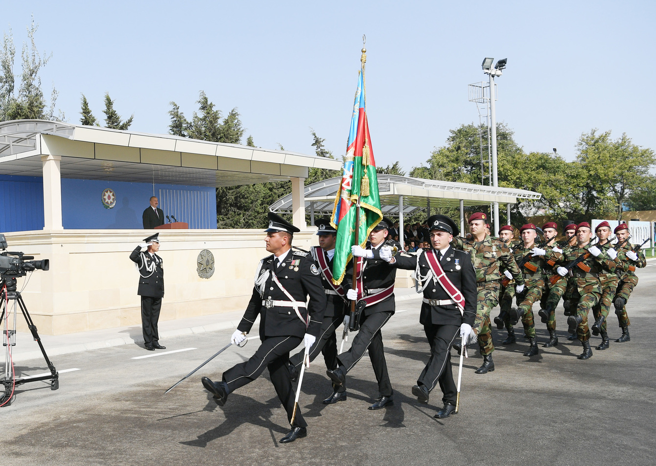 An oath taking ceremony has been held for young soldiers at a military unit of the State Security Service of the Republic of Azerbaijan.